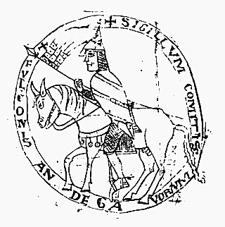 Seal of Fulk IV of Anjou